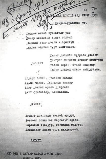 The original lyrics of the National Anthem of Mongolia in a decree from 1950. The date of the decree was ambiguous Another text that wasn't seen on the decree 1950 оны 4 сарын 6. "МАХНЫ-ын ТХ-ны УП-нья хуралдаан" гэсэн цохолт бухий Юдздэнбалын гарын усэг бухий БНМАУ-ын терийн дуулал эх. 1950 он.